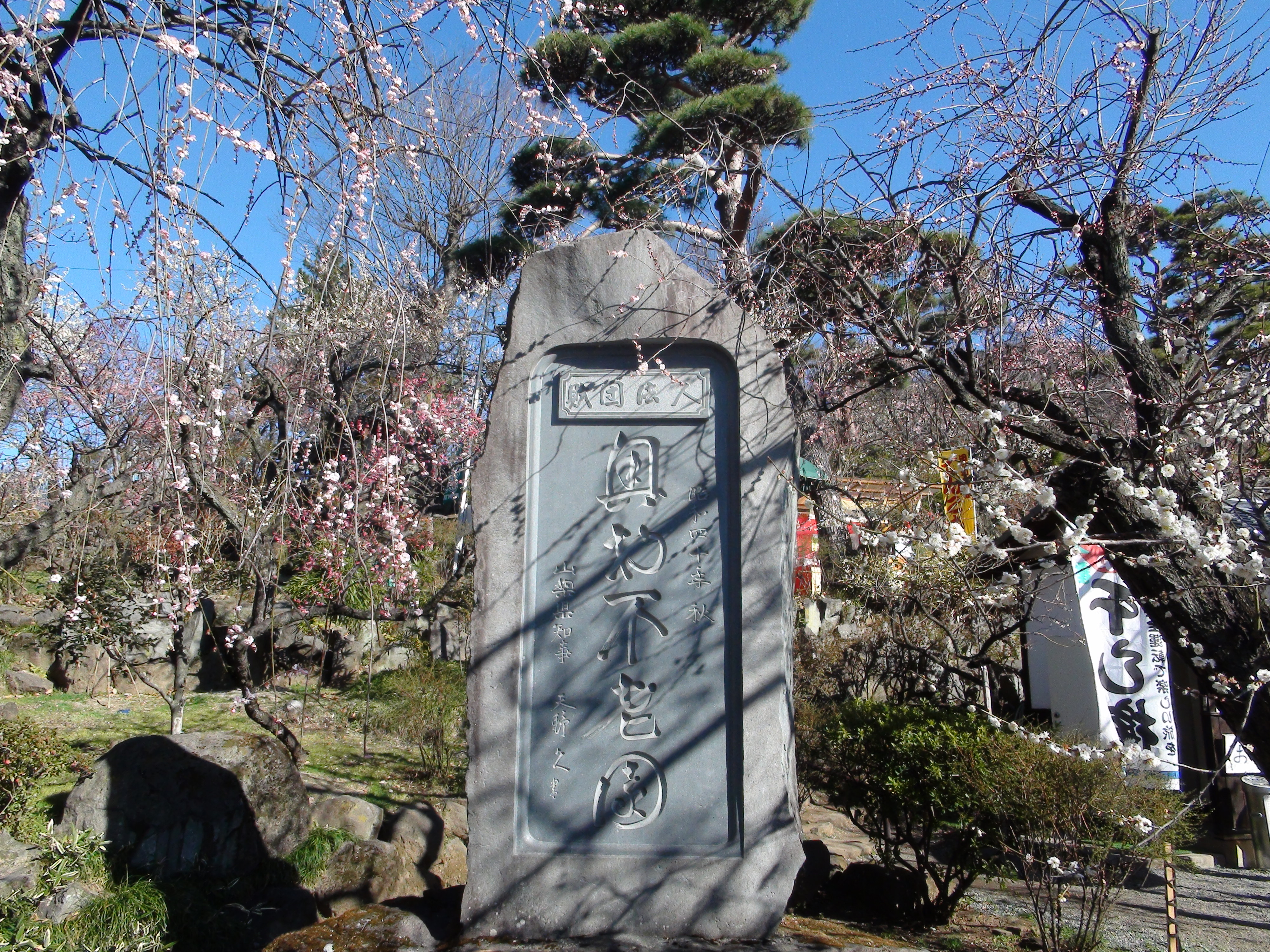 A monument of Furoen